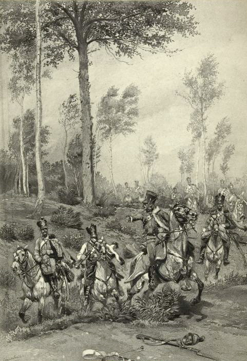 French hussars on a scouting mission in 1809.